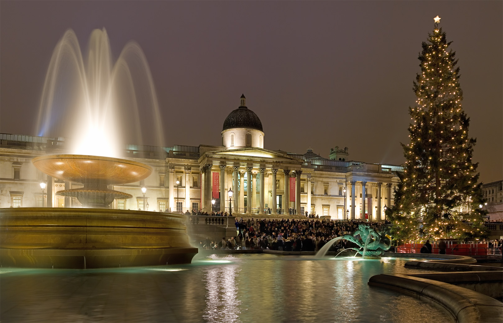 A gathering of Carol Singers in front of the Christmas Tree in Trafalgar Square, London England.